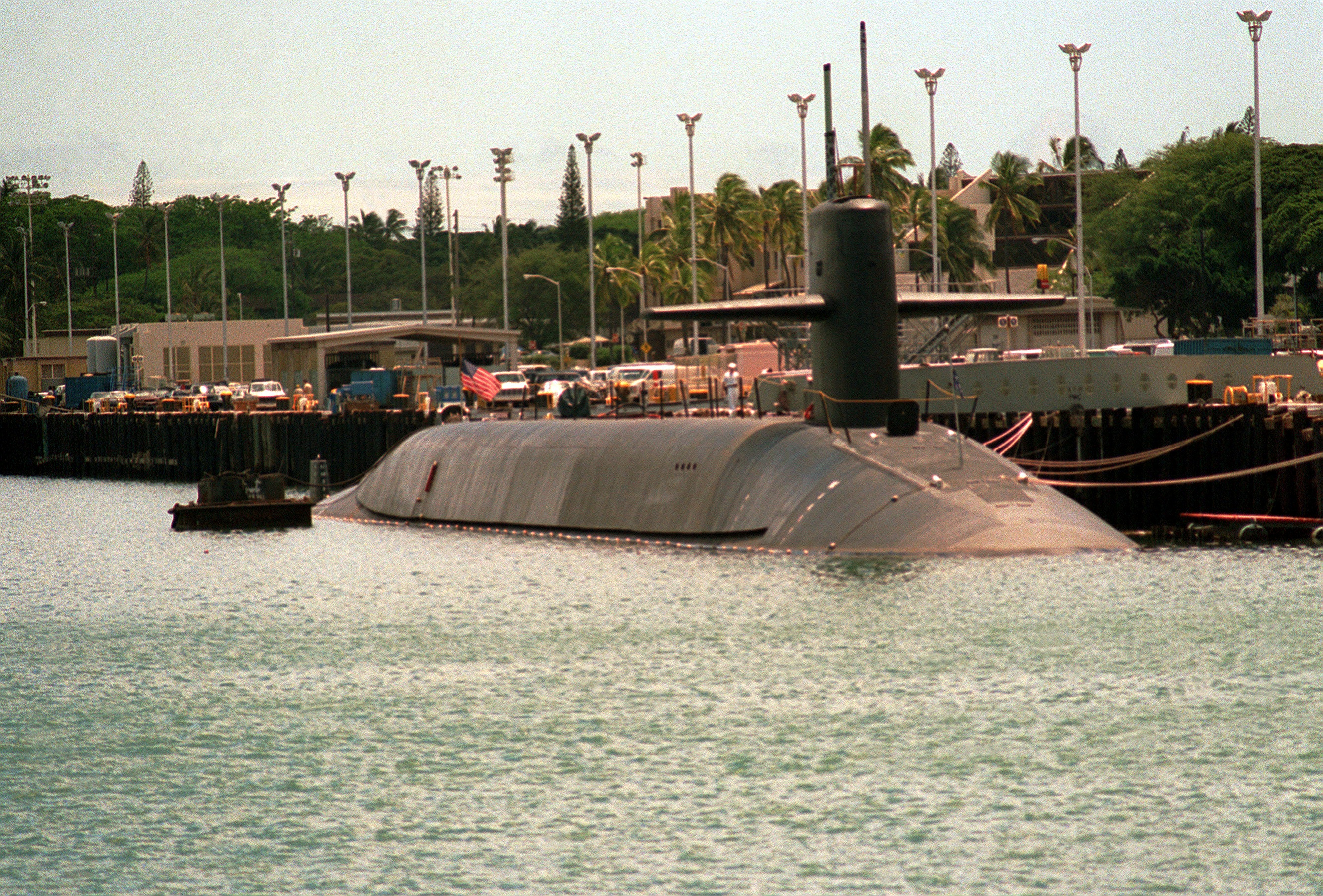 A starboard view of the nuclear-powered strategic missile submarine USS GEORGIA (SSBN-729) moored to a pier. Location: NAVAL STATION, PEARL HARBOR, HAWAII (HI) UNITED STATES OF AMERICA (USA)